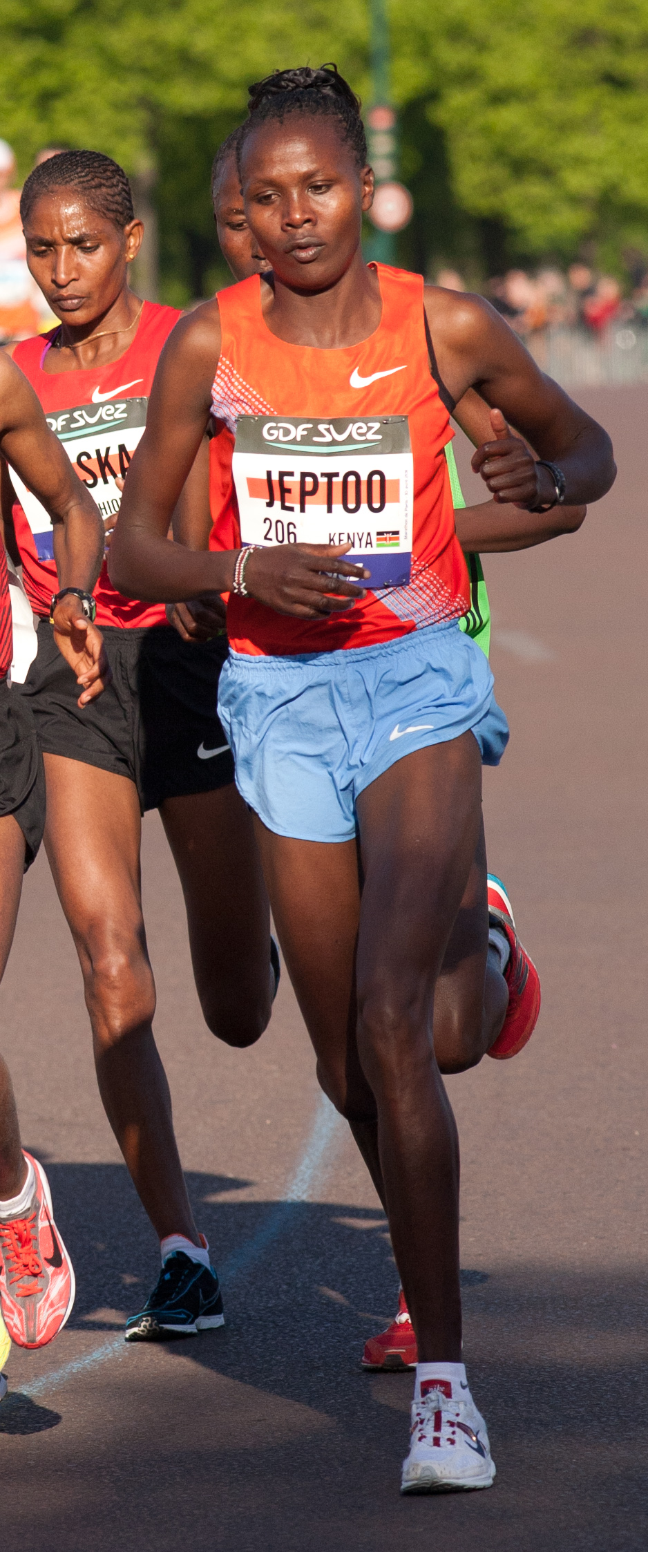 Priscah Jeptoo at the 2011 Paris Marathon